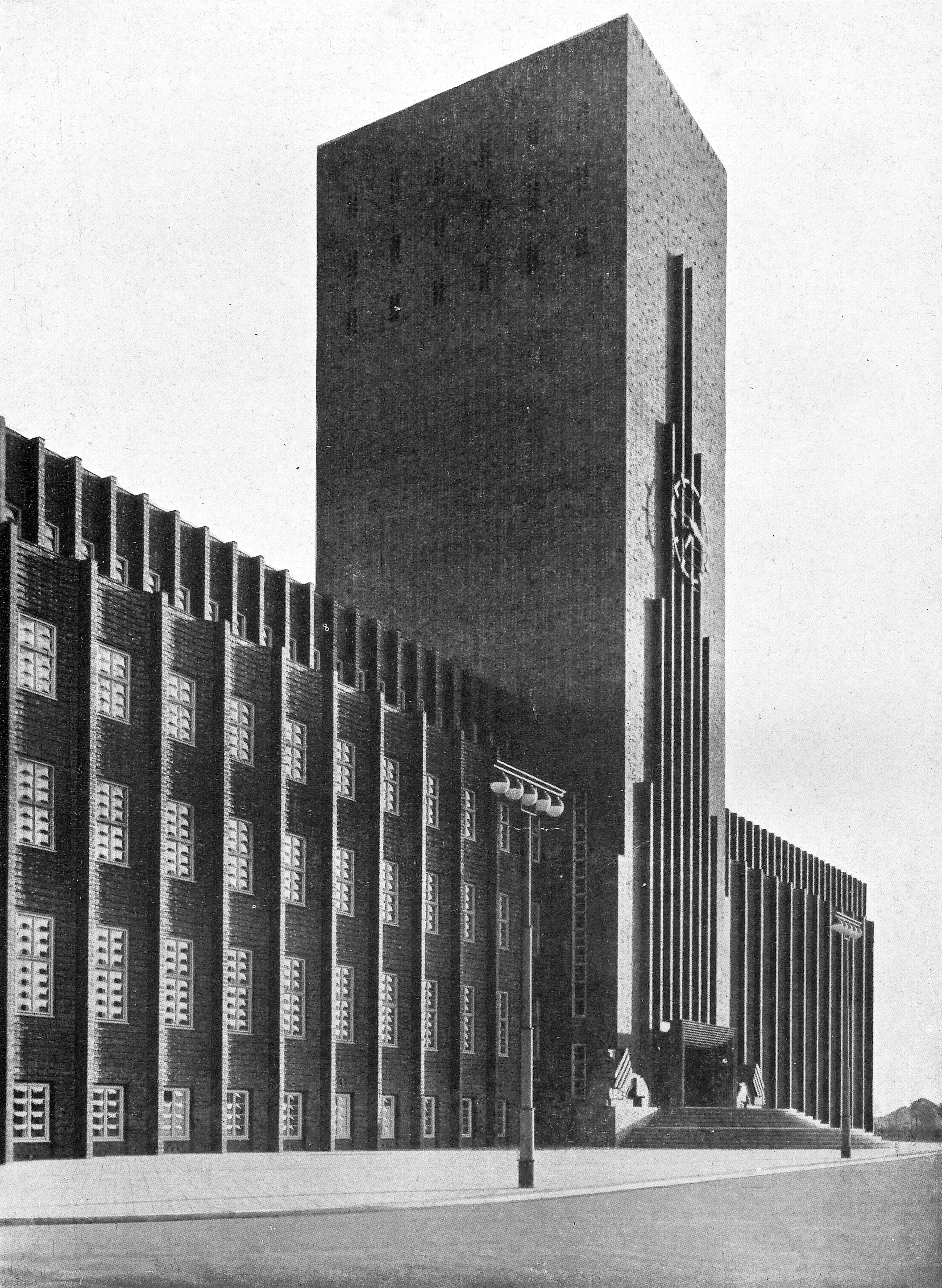 Ruestringen townhall (today: Wilhelmshaven townhall) located in Wilhelmshaven, Lower Saxony, Germany. The contemporary image was taken by Hamburg-based photographer Carl Dransfeld (1880-1941), between 1929 and 1938.